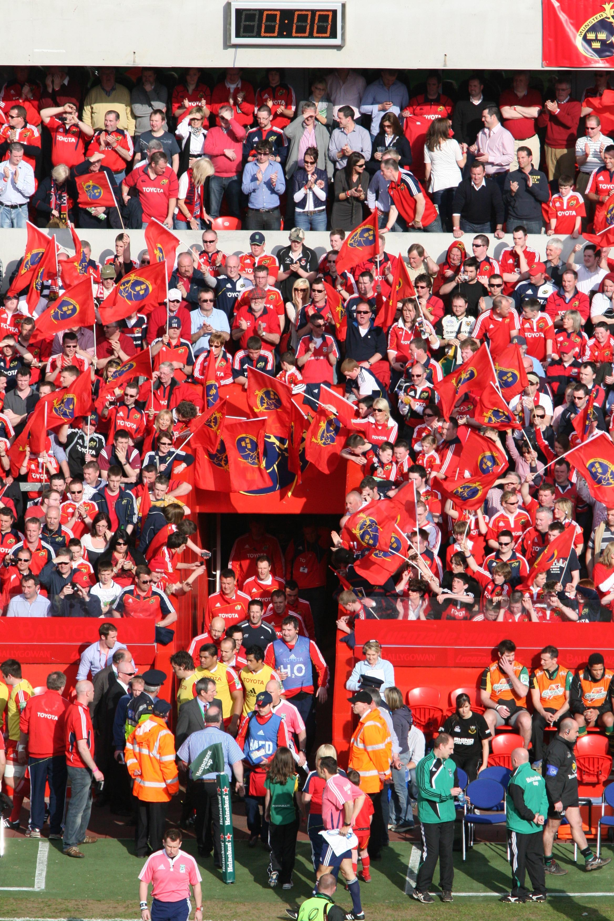 Munster vs Northampton Saints in the Heineken Cup Quarter Final at Thomond Park, Limerick - 10th April 2010 Munster vs Northampton Saints in the Heineken Cup Quarter Final at Thomond Park, Limerick - 10th April 2010